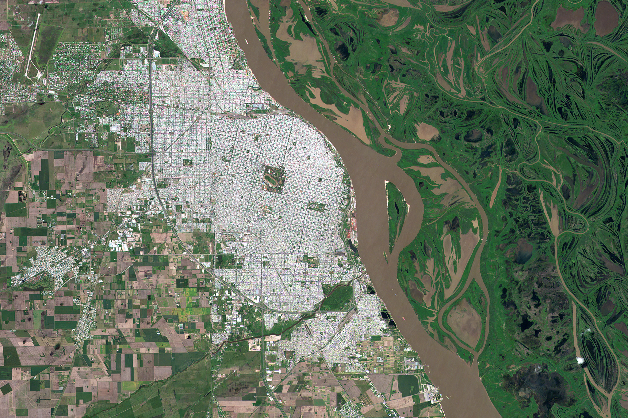 Around the city of Rosario, Argentina, as viewed by Hodoyoshi-1 satellite.